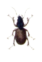 Agonum muelleri muelleri, from Calwer's Käferbuch, Table 6, Picture 26. Taxonomy was updated to 2008, using mostly the sites Fauna Europaea and BioLib. Please contact Sarefo if the determination is wrong!